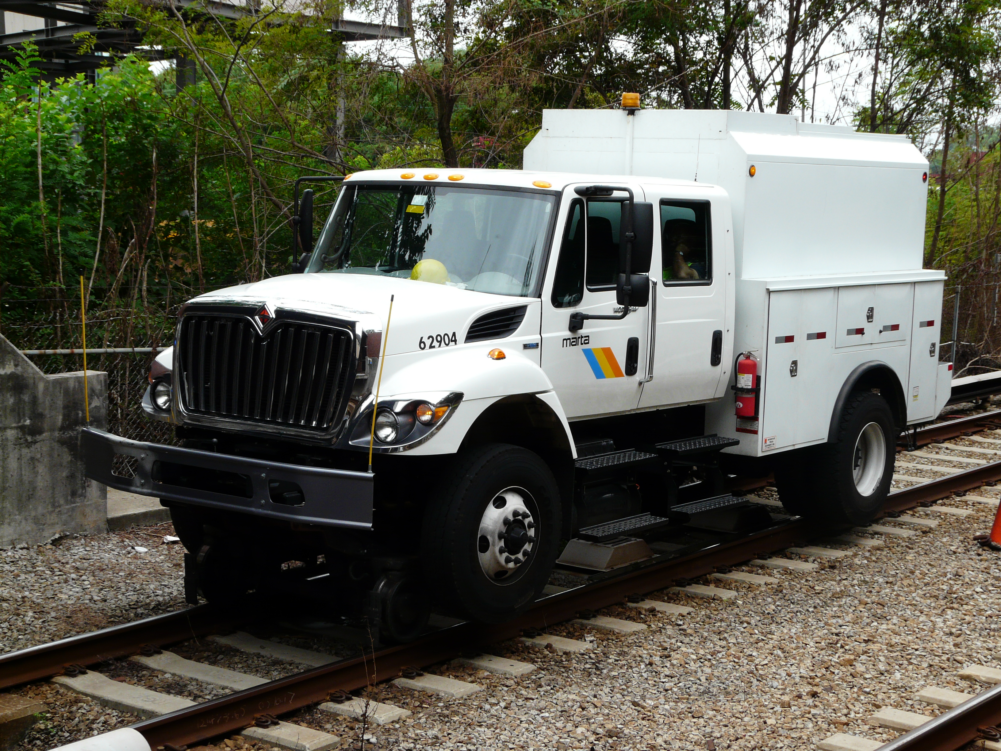 Metropolitan Atlanta Rapid Transit Authority maintenance truck